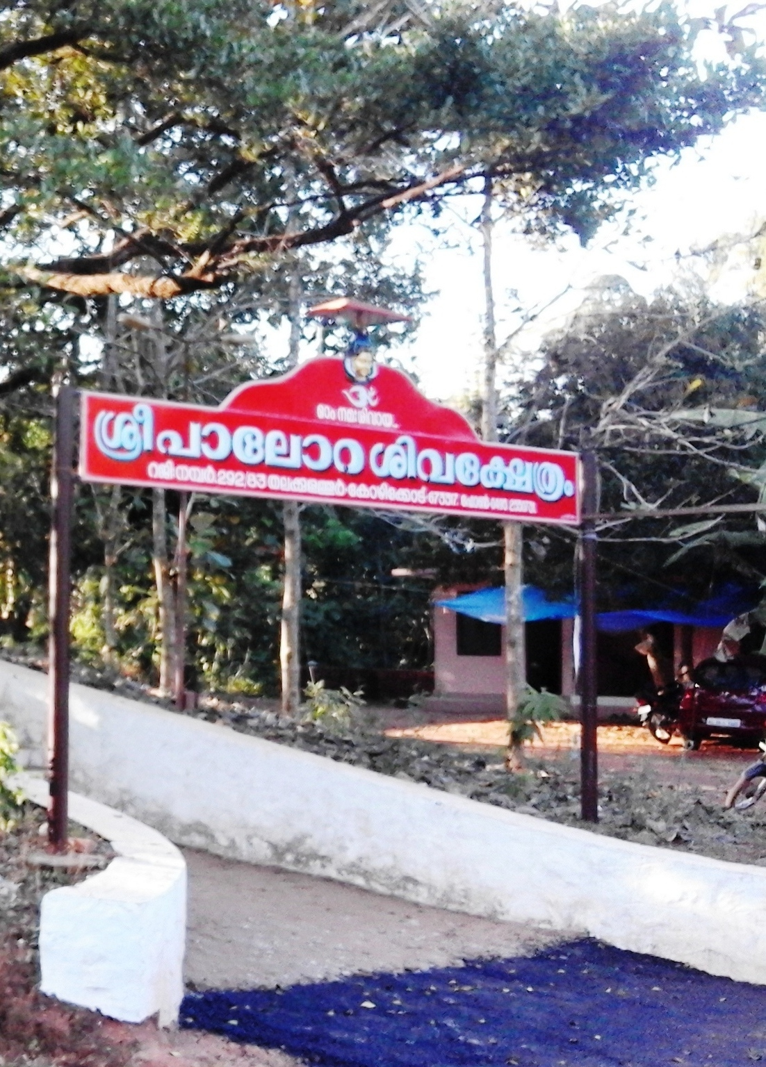 Palora Shiva Temple, Purakkattiri, Thalakkulathoor, Kozhikode, India.